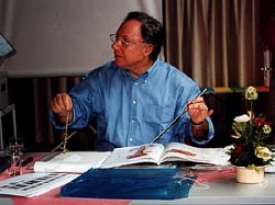 Ibrahim Karim tijdens seminar in 2000 (foto Wouter Hagens)